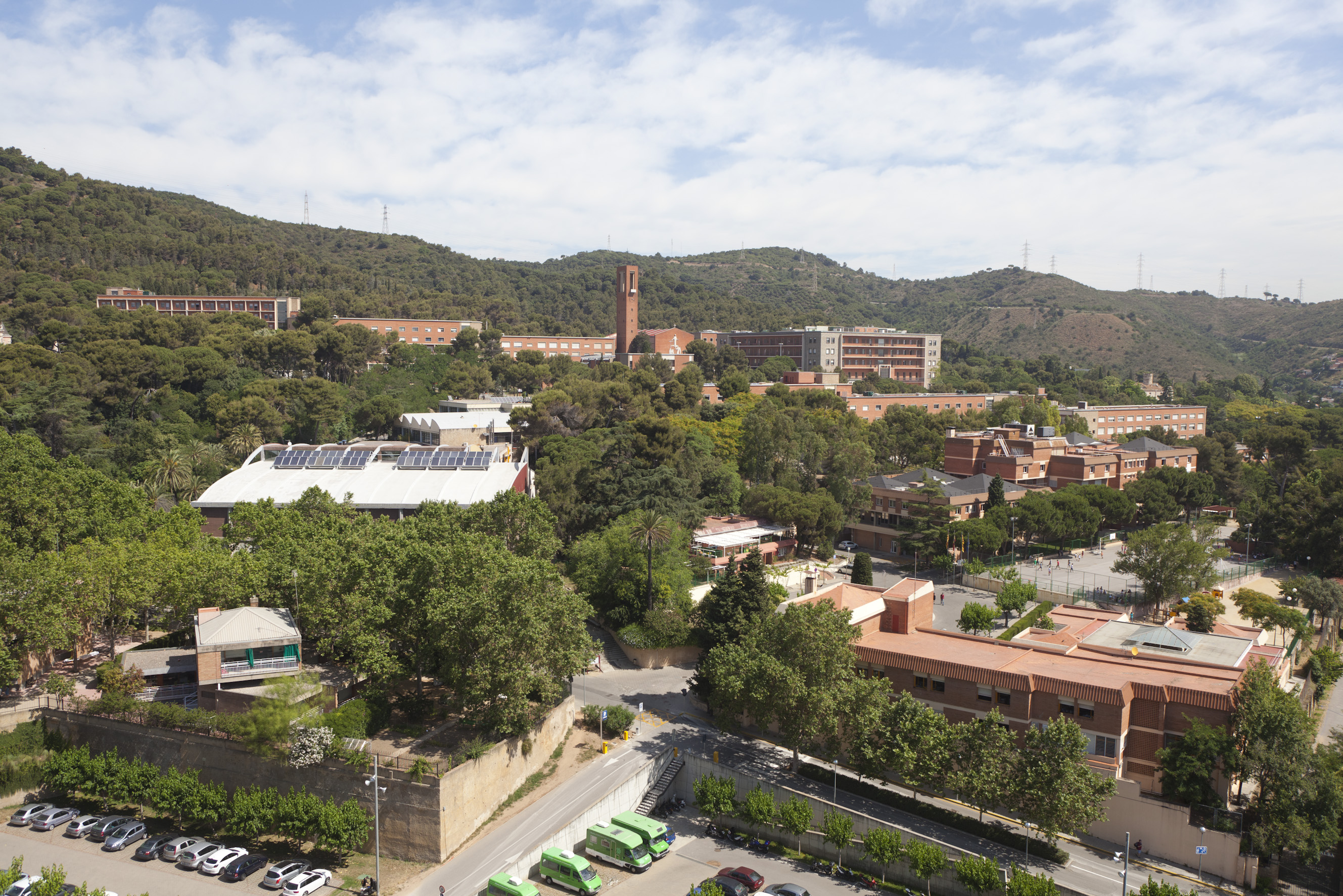 Historical Routes at the Horta-Guinardó District Administration in Barcelona This image was provided to Wikimedia Commons by the Horta-Guinardó District Administration in Barcelona as part of an ongoing cooperative project with Amical Viquipèdia. English | +/−